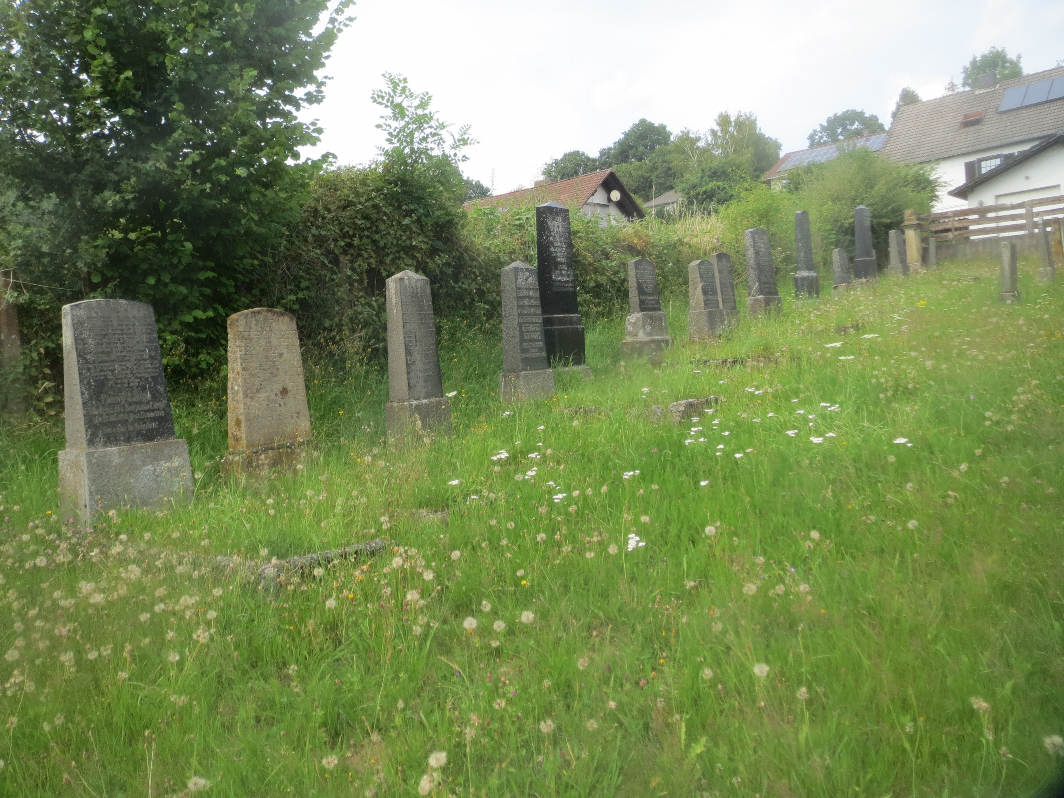 New Jewish cemetery in Harmuthsachsen